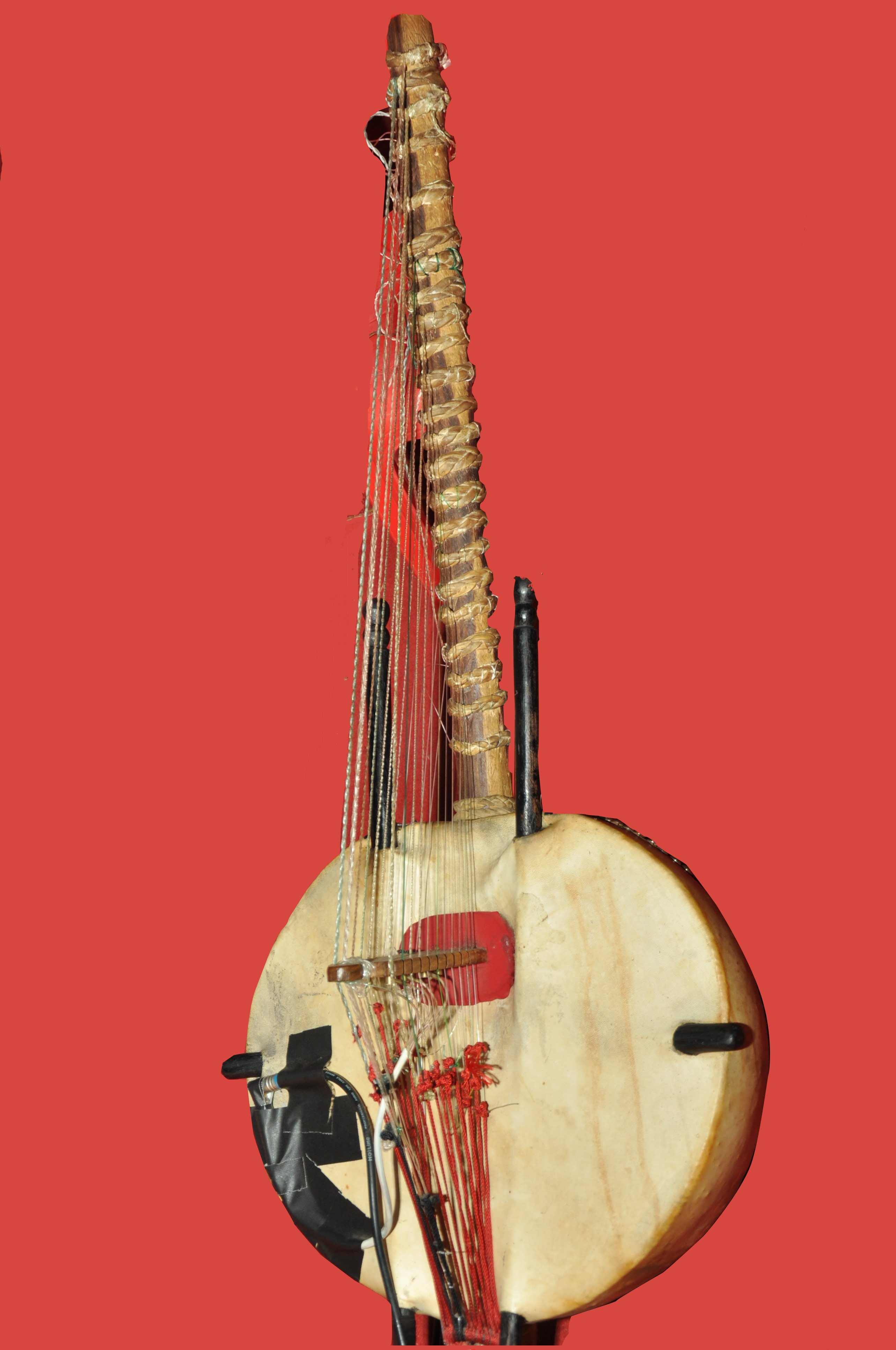 The kora is a 21-string bridge-harp used extensively in West Africa